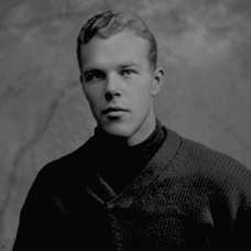 Ted Coy, from a photograph, courtesy of Yale Athletic Association